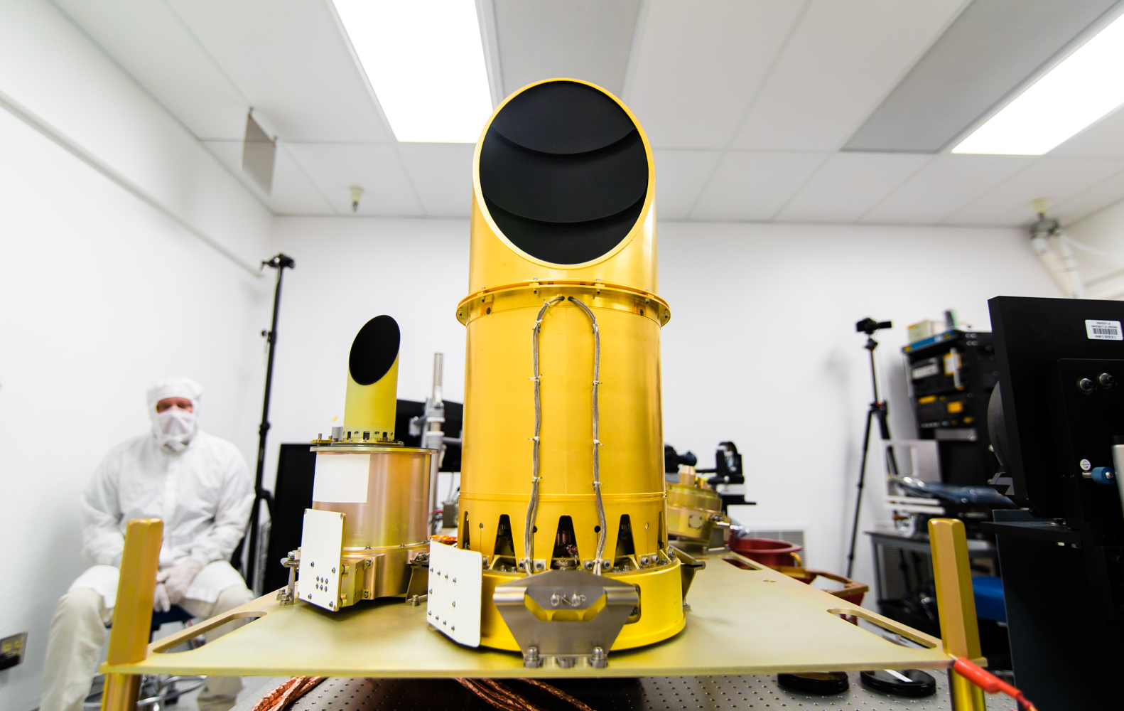 PolyCam (center), MapCam (left), and SamCam (right) make up the OSIRIS-REx Camera Suite, responsible for most of the visible light images that will be taken by the spacecraft. Credit: University of Arizona/Symeon Platts